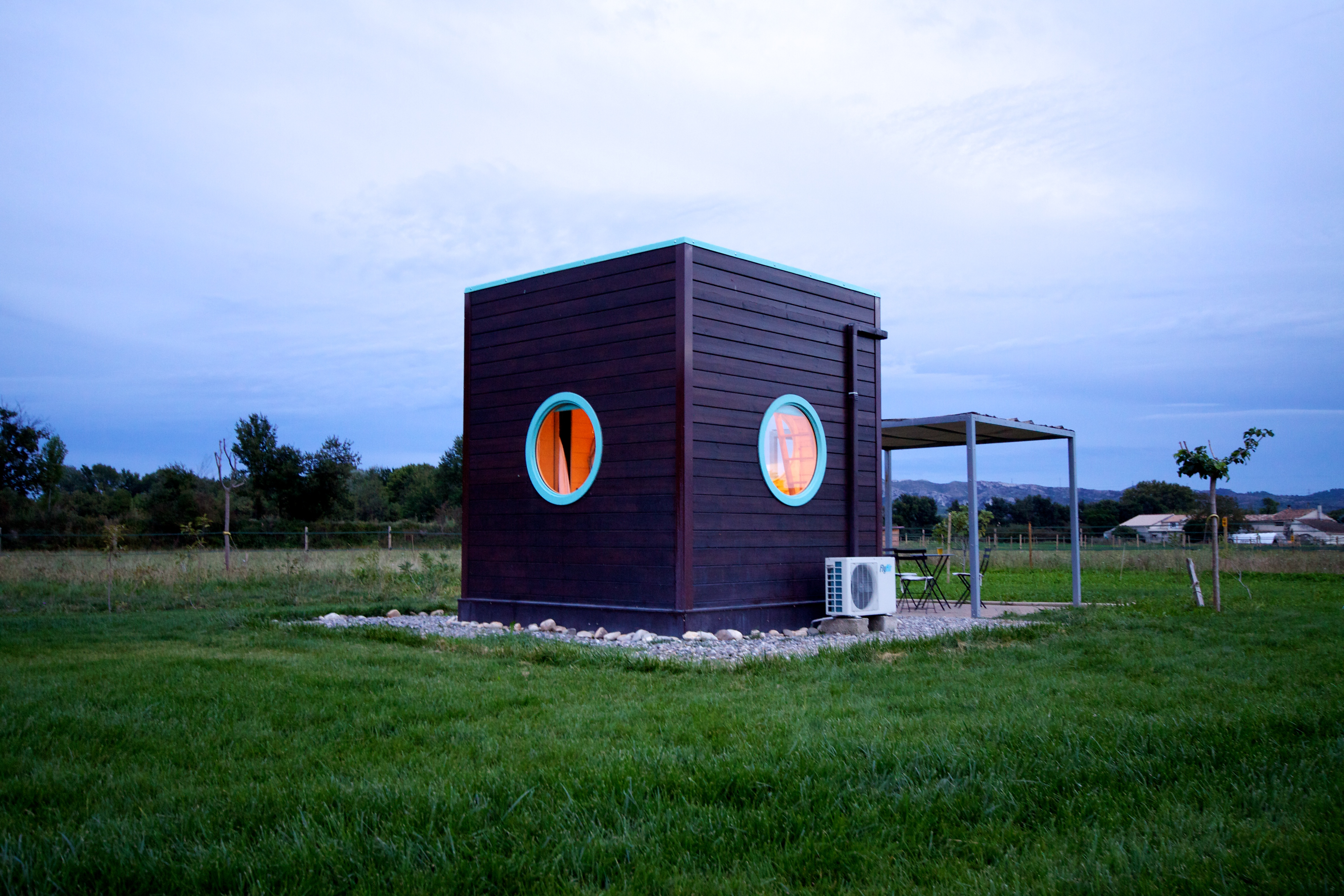 A "Carré d’étoiles" ("star box") in France. A Carré d’étoiles is a small, relatively portable vacation cabin designed with a skylight in the roof for stargazing.